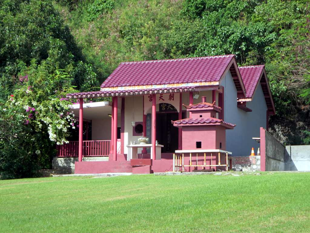 Tai Pak Kong Temple serves the Chinese community at The Settlement on Christmas Island, Australia. In 1898 the first 200 Chinese labourers arrived to work in the phosphate mines on the island.